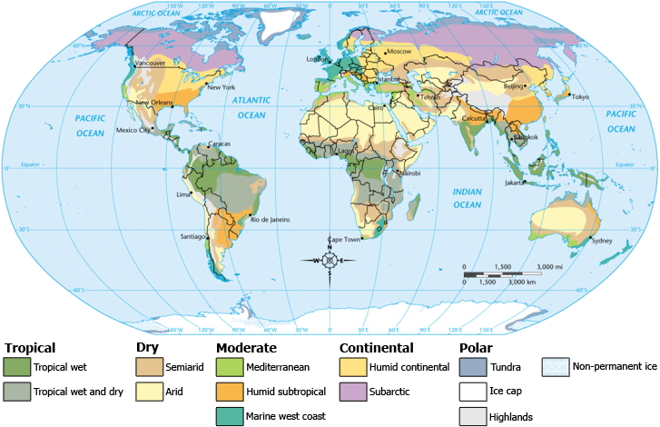 The climate zones of the world.